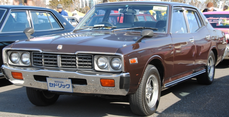 Nissan Cedric GL